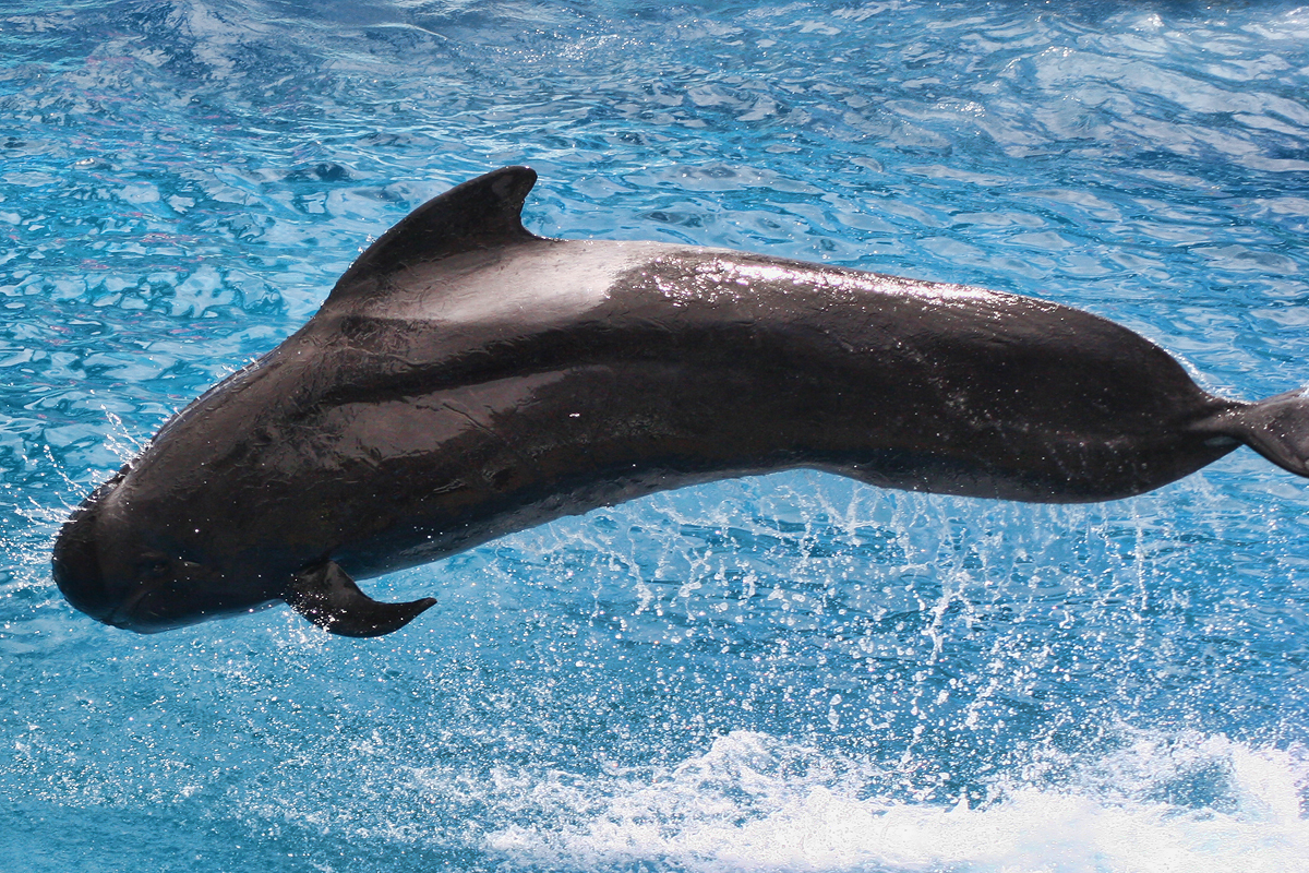 Blue Horizons (Dolphin Stadium): This show features Bottlenose dolphins, various birds of flight, Pacific short-finned pilot whales, and aerialists. SeaWorld San Diego Theme Park